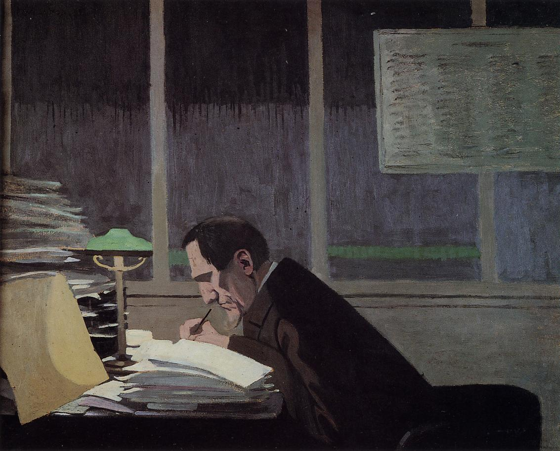 Félix Fénéon Editing La Revue Blanche